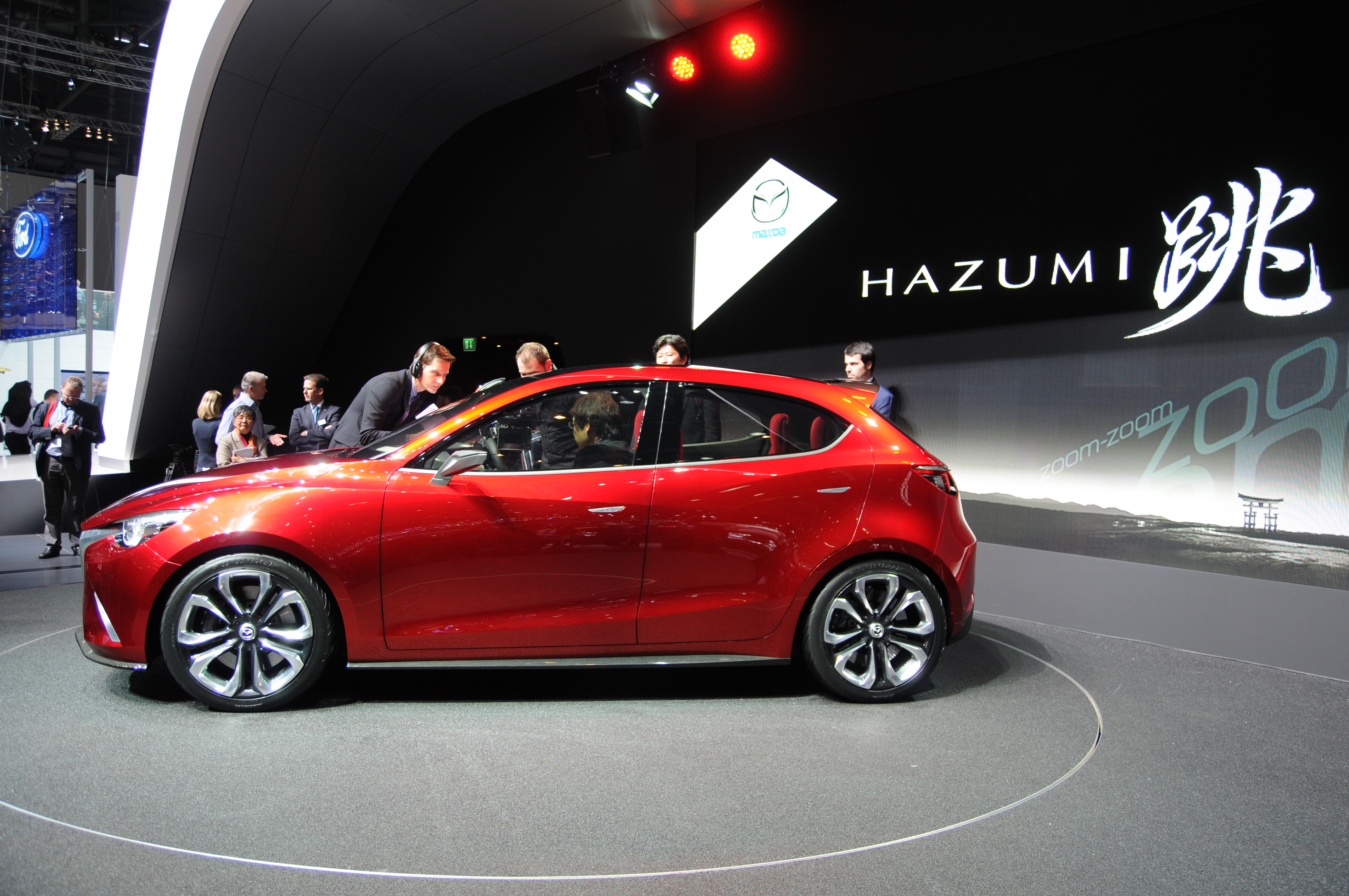 Geneva Motor Show 2014 (photo taken on the first press day)